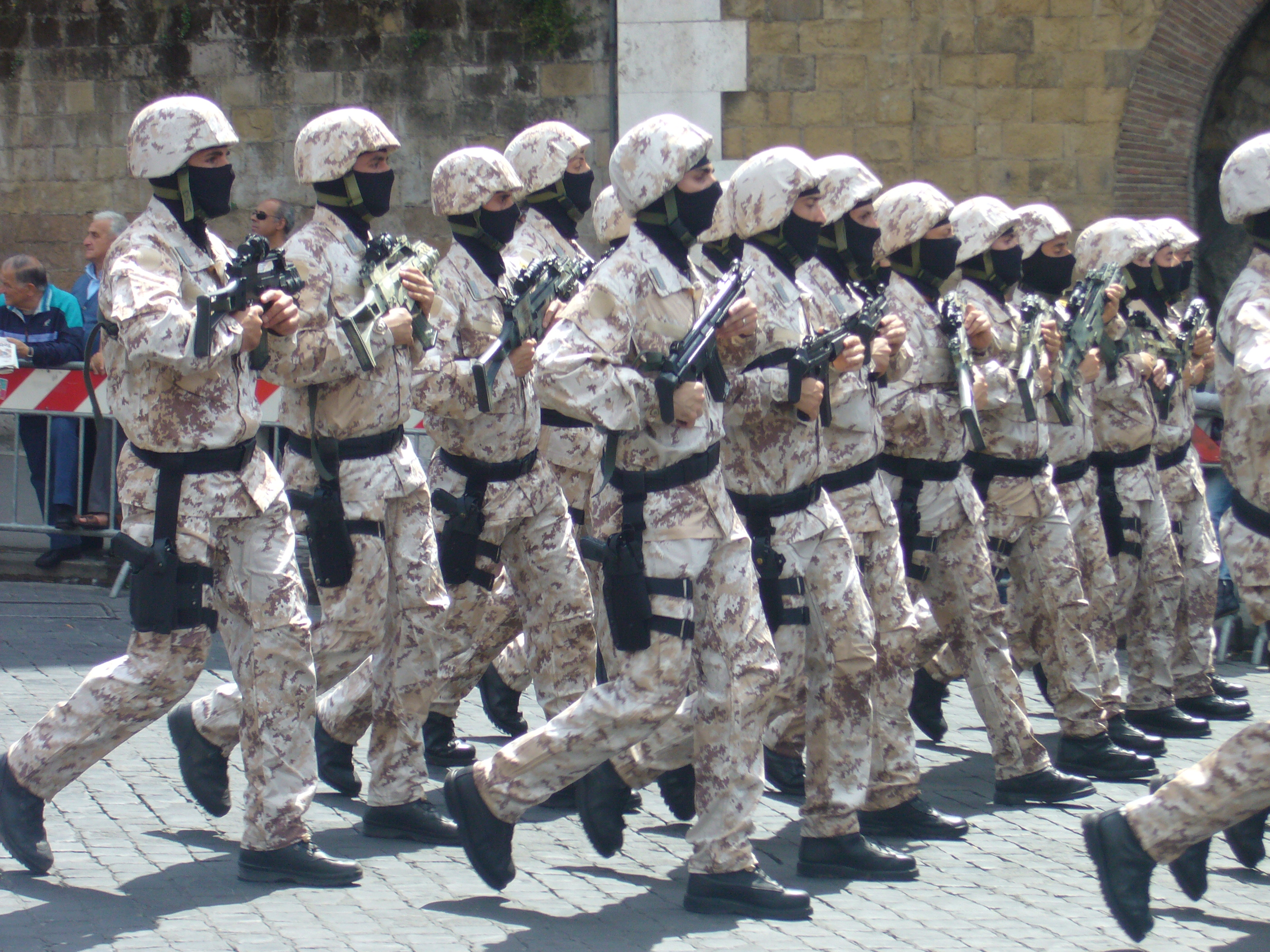 Carabinieri of the Gruppo di Intervento Speciale (Special Intervention Group - GIS) with desert vegetato camouflage on parade in Rome.